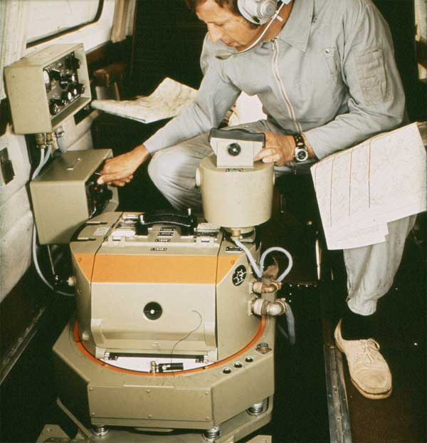 Camera per riprese aerea Wild RC10